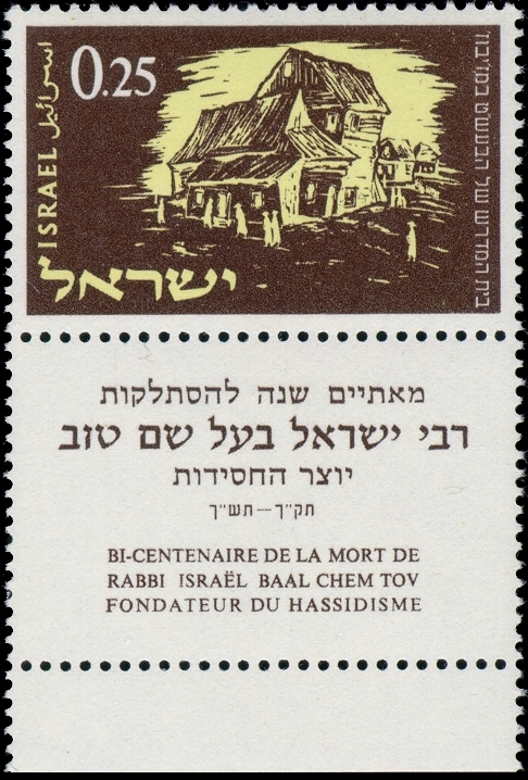 Baal Shem Tov (BESHT) stamp - 0.25 Israeli lira - Commemorating the bicentenary of his death. Inscription: "The synagogue of the Besht in Mezhibozh"